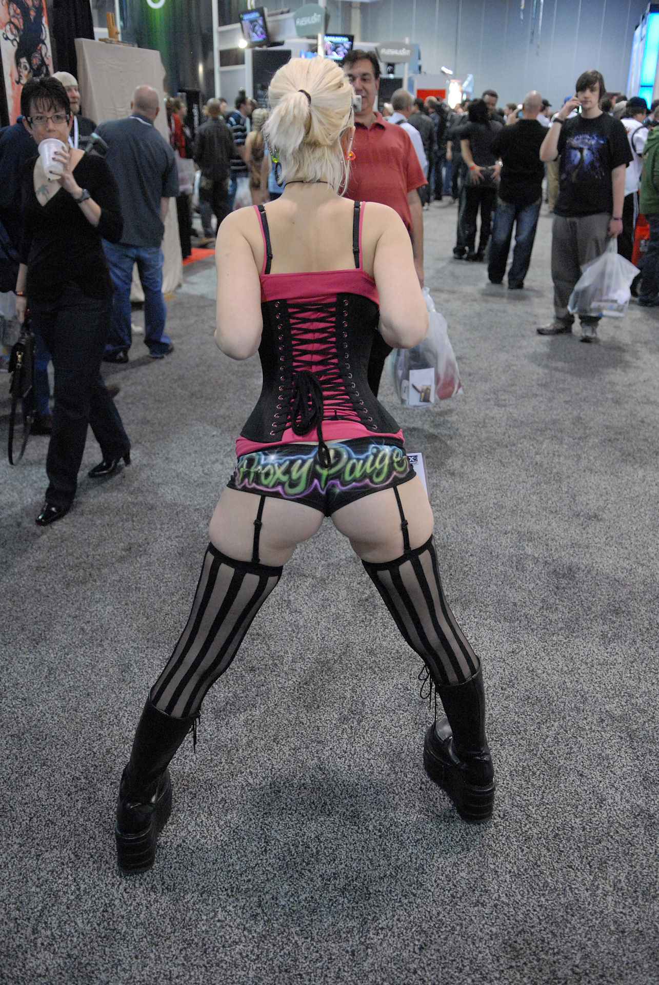 Proxy Paige AVN Adult Entertainment Expo 2010